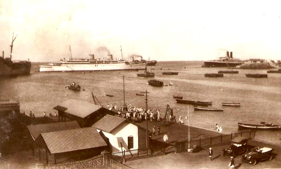 Aden's Steamer Point circa 1920-1925.